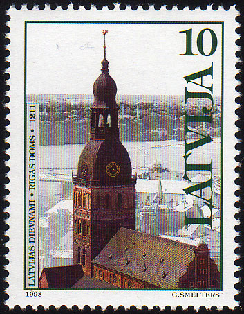 Postage stamp issued by Latvia 1998 with view of Riga, Latvia.